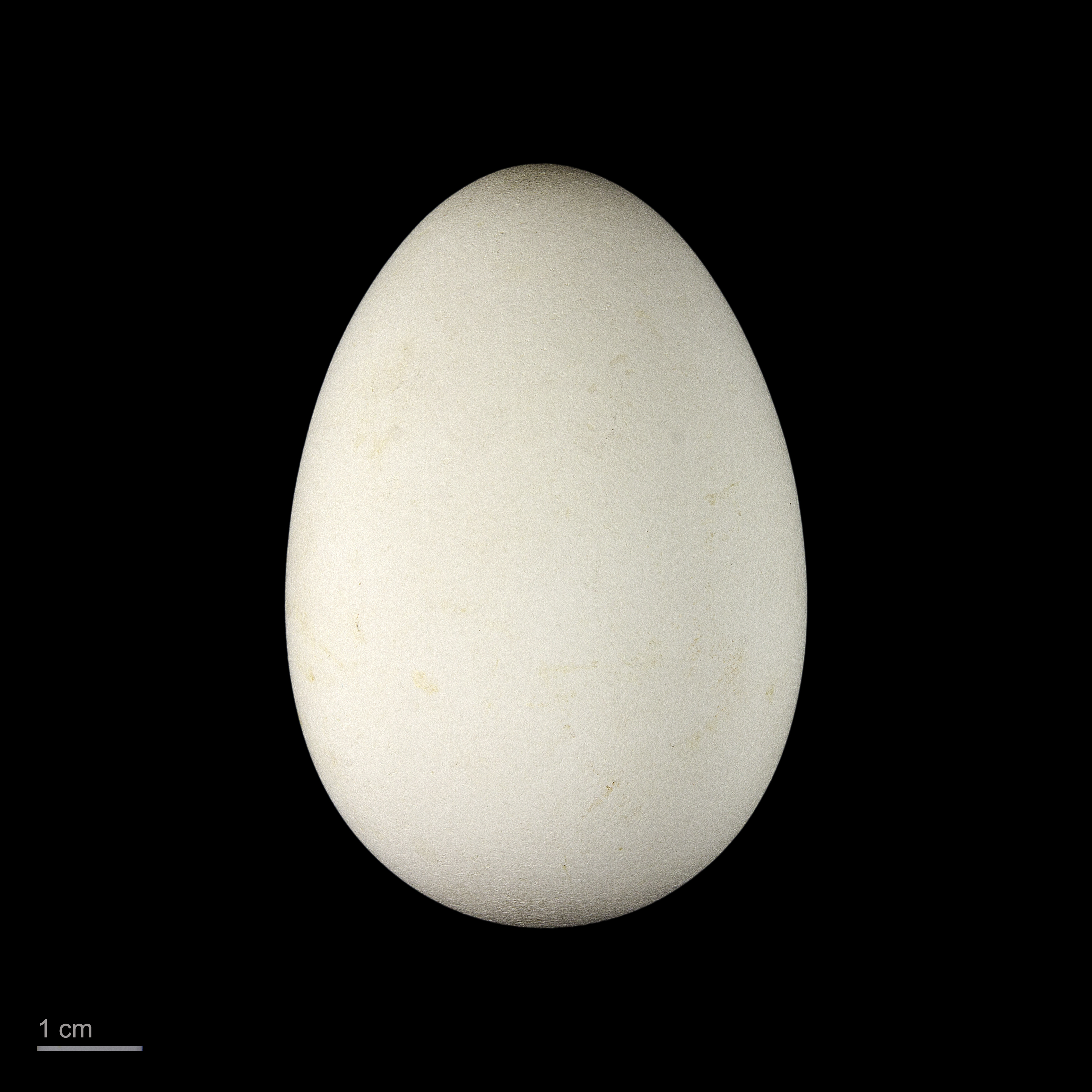 Eggs of Scopoli's shearwater collection of Jacques Perrin de Brichambaut.